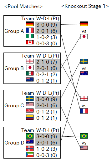 An explanatory example of "pool"ed tournament system, from 2011 FIFA Women's World Cup